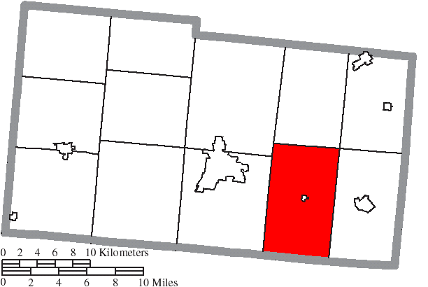 Map of the municipal and township boundaries of Champaign County, Ohio, United States, as of the 2000 census, with the location of Union Township highlighted. Township borders are shown only in unincorporated areas in order to differentiate incorporated and unincorporated areas more clearly.